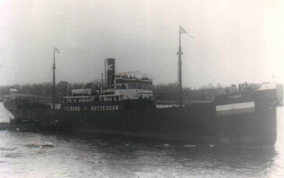 Photograph of SS Tilburg. Probably dating from WWI as nationality, name, port and flag painted on ship